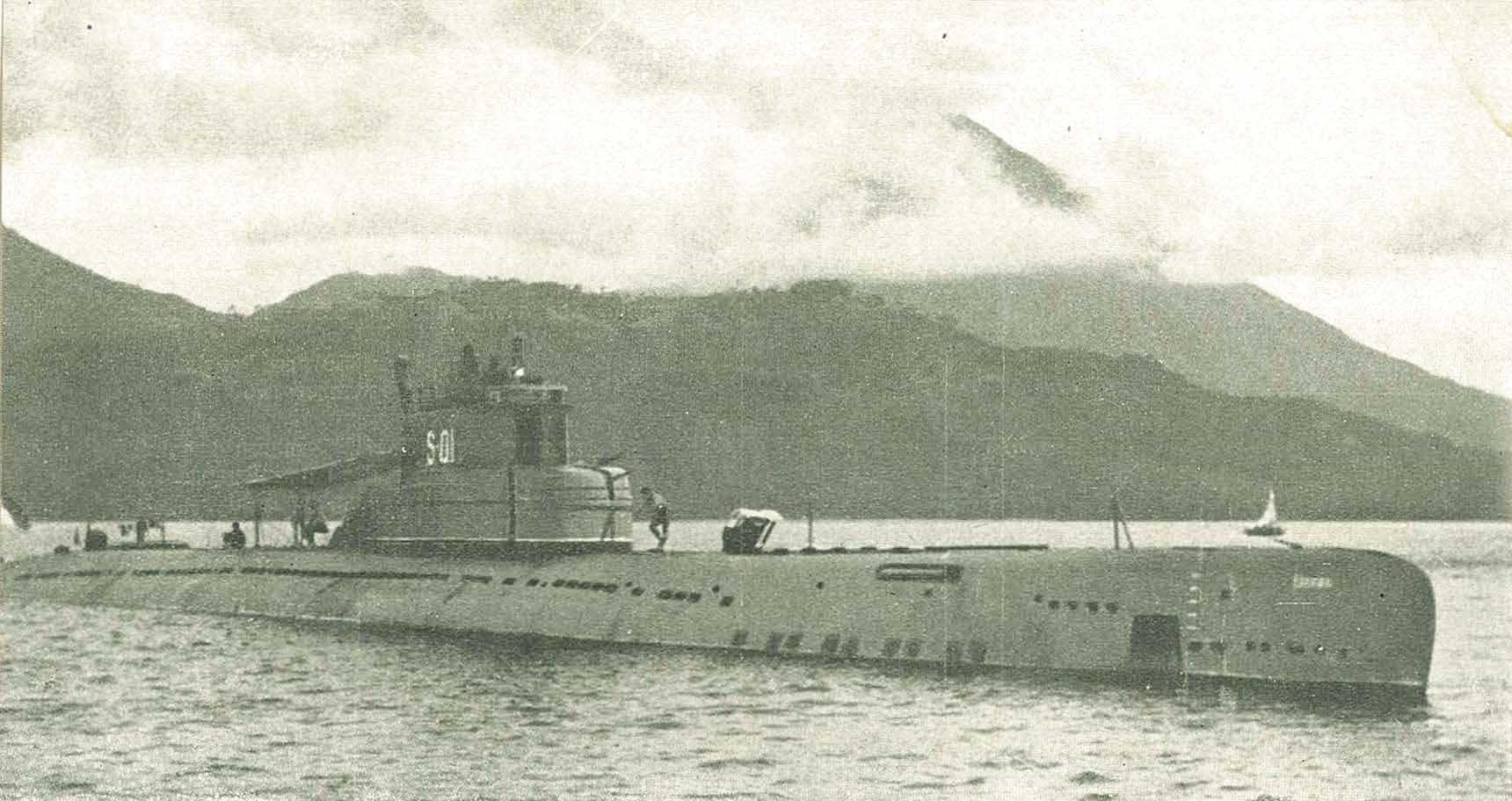 RI Tjakra